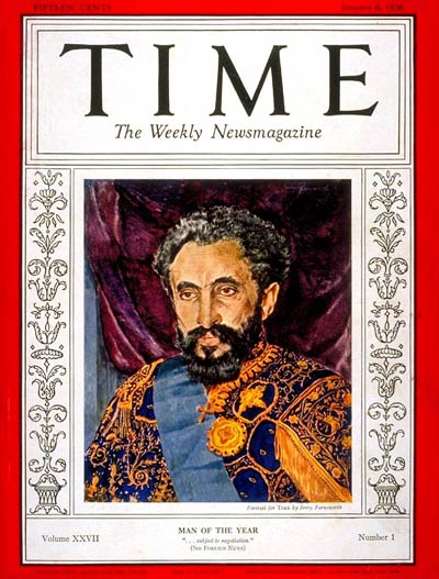 Emperor Haile Selassie on Time cover 1936.